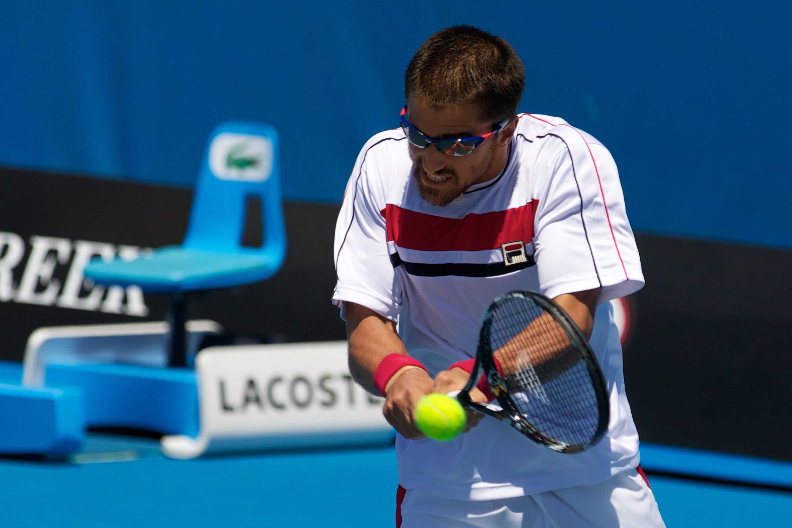 Janko Tipsarevic at the 2011 Australian Open